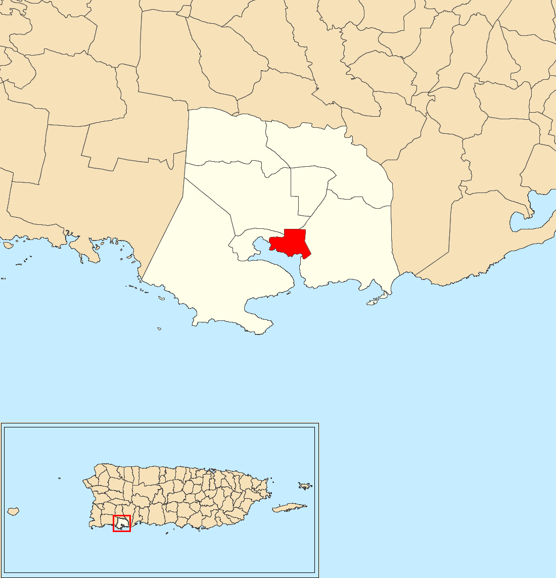 Guánica barrio-pueblo, Guánica, Puerto Rico locator map